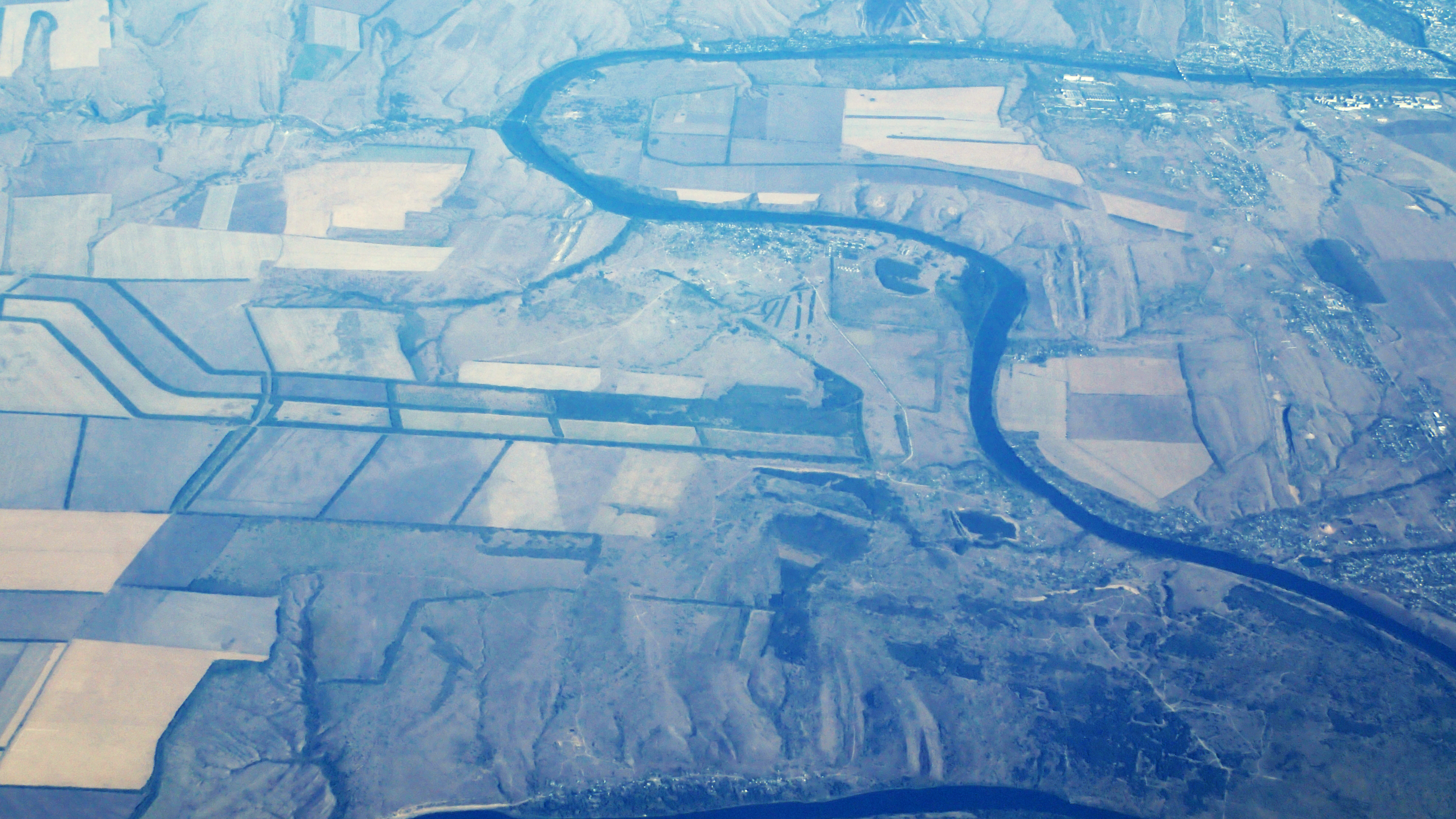 Государственная защитная лесополоса Белая Калитва — Пенза -- Russian state Windbreak shelterbelt